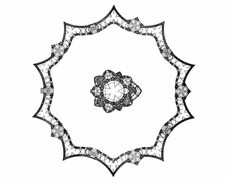 Ground plan of Church of Pilgrimage Church of Saint John of Nepomuk on Zelená Hora in Žďár nad Sázavou by Jan Santini Aichel